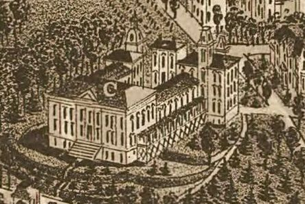 Detail from an 1886 map showing the Old City Hall, then home to the "Deaf and Dumb Asylum," in Knoxville, Tennessee, USA.